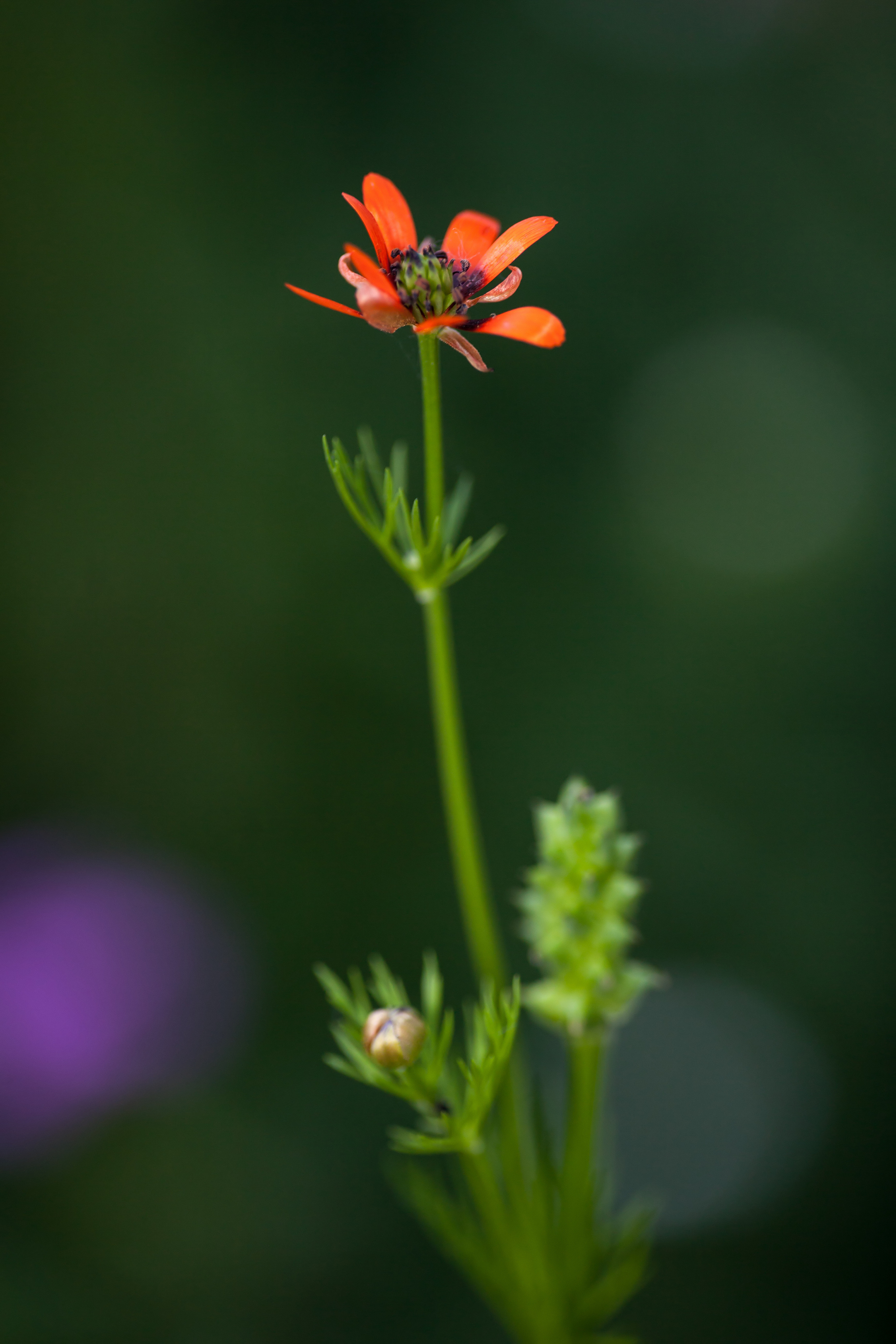 Adonis flammea